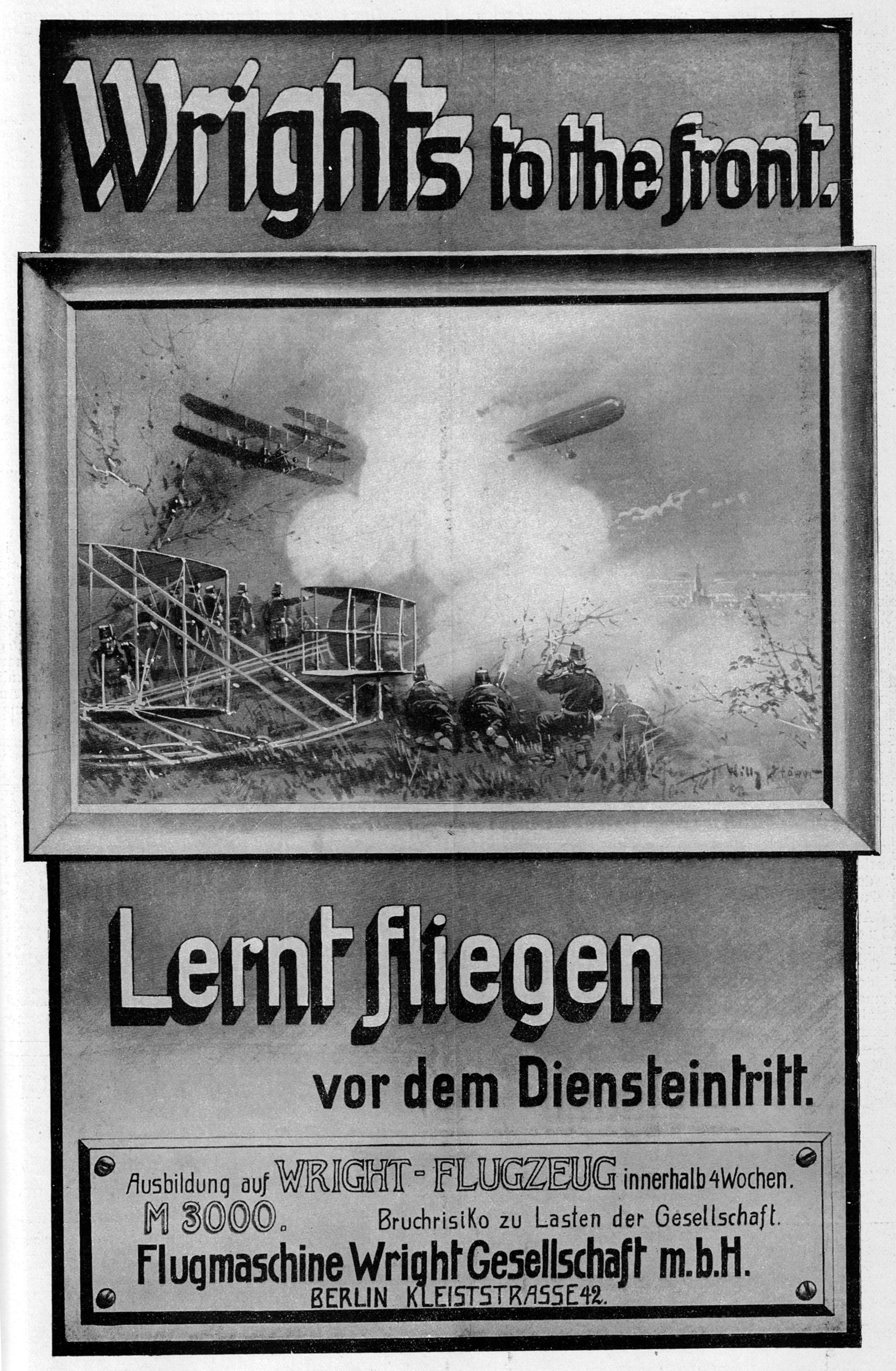 advertisement of the Wright Company Berlin, Germany